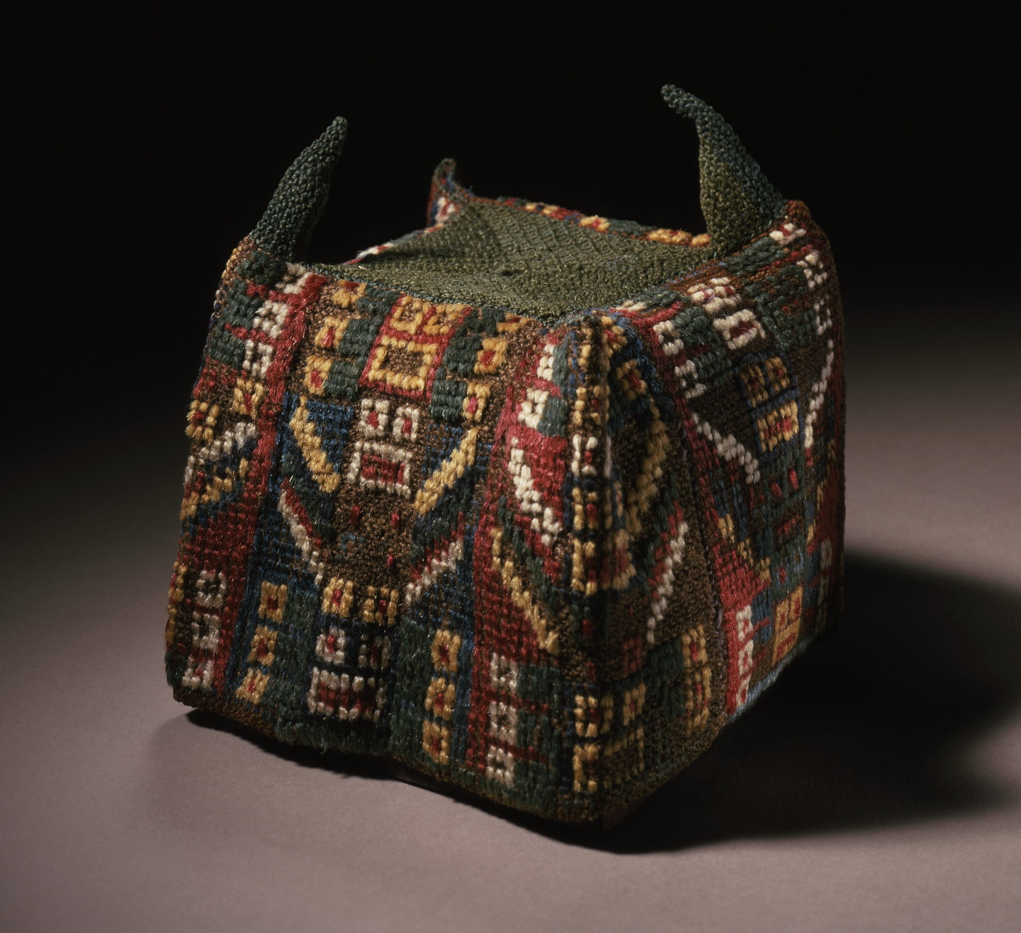 Peru, South Coast, Wari, 600-800 Costumes; Accessories Camelid fiber in larkshead knotting with cut pile 4 x 4 x 4 in. (10.16 x 10.16 x 10.16 cm); Circumference: 18 1/4 in. (46.36 cm) Costume Council and Museum Associates Purchase (M.79.81.5) Costume and Textiles